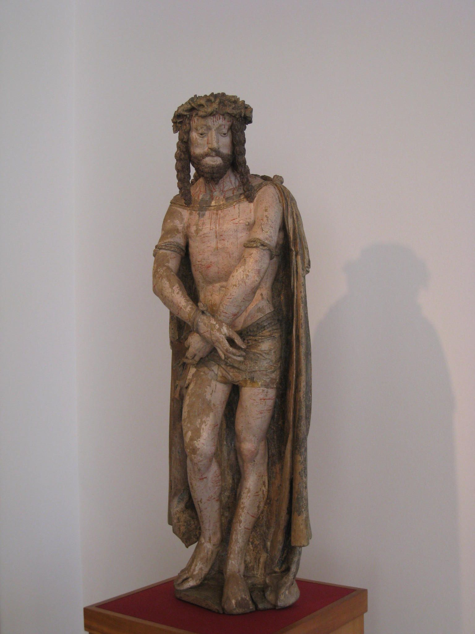 Ecce Homo, 15th century